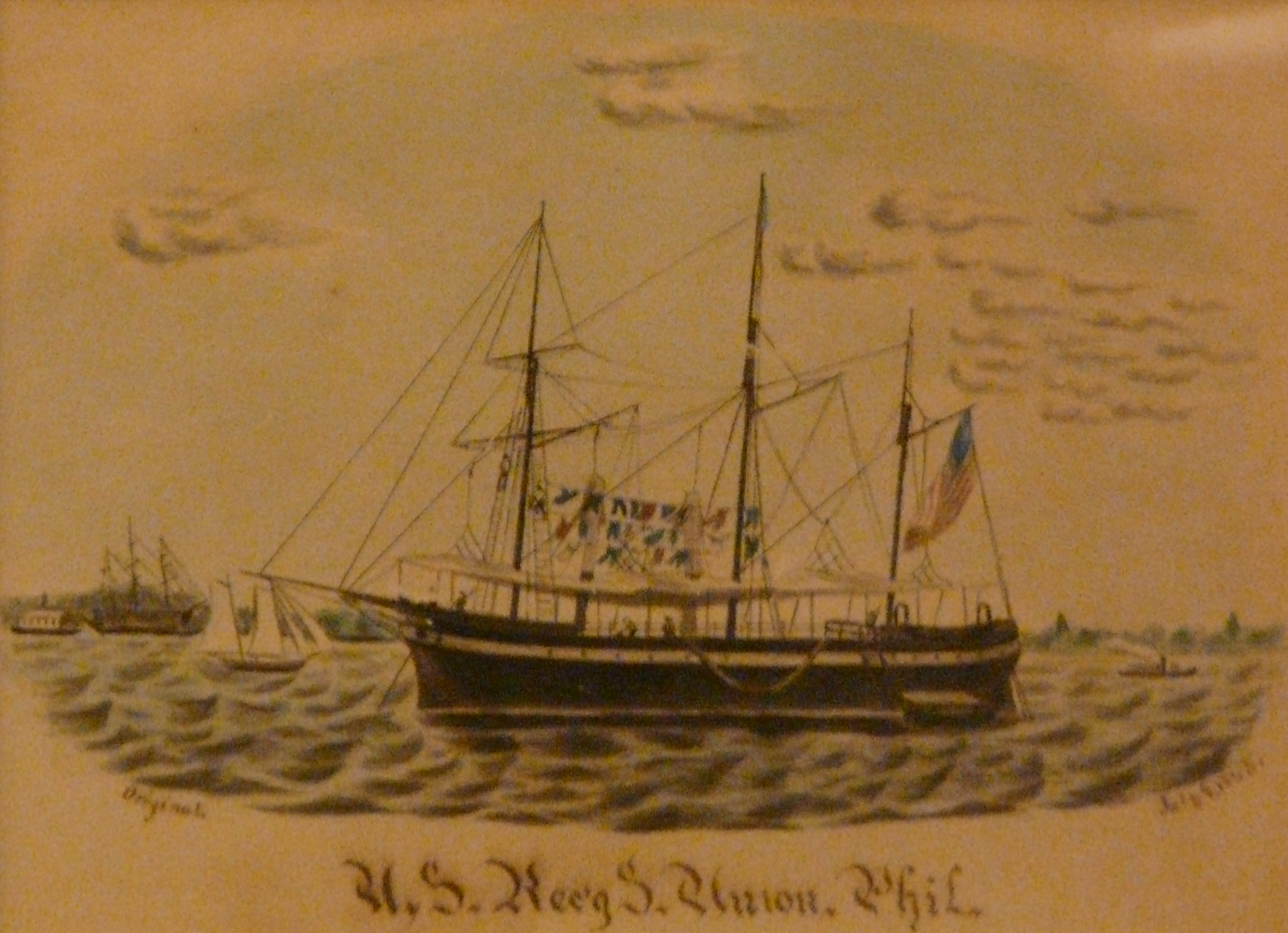 "US Steam Frigate "Susquehanna". From Harper's Magazine, NY. Woodcut engraving, 1858. Independence Seaport Museum